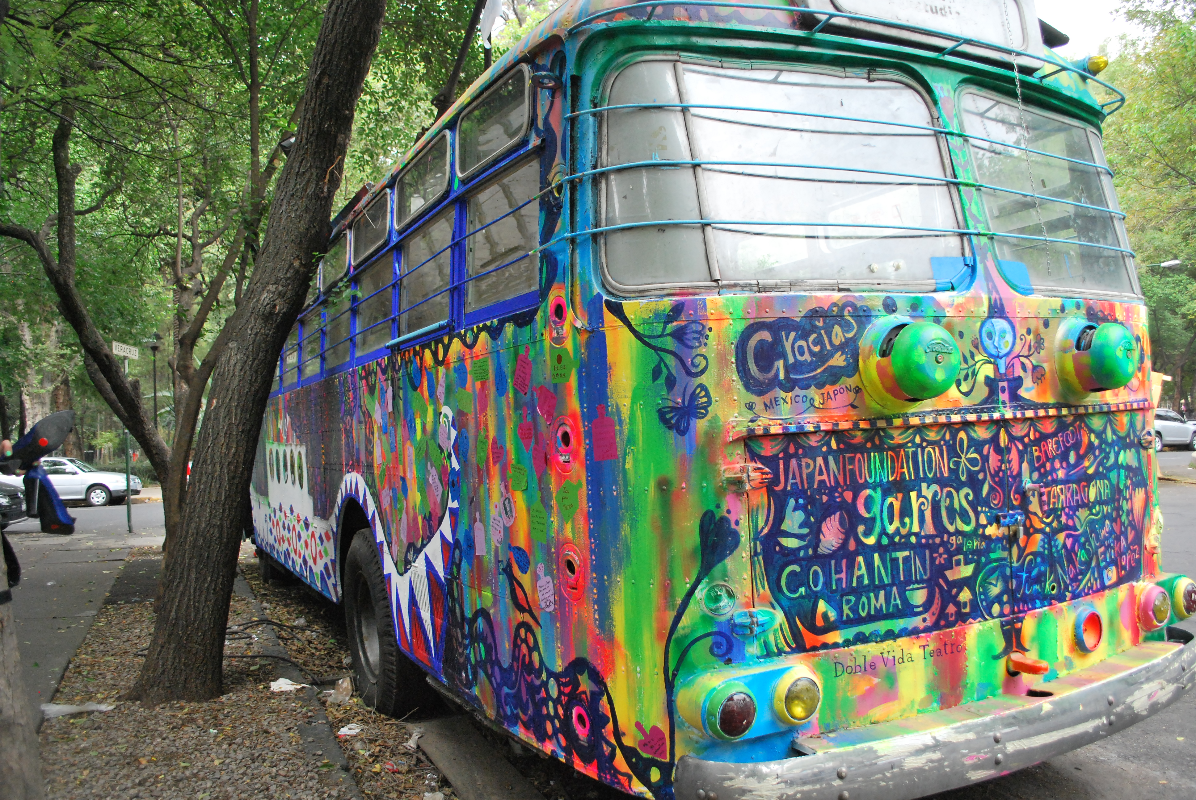 Trolleybus parked in Colonia Hipodromo (on Avenida Veracruz across from Parque España) in Mexico City, painted by Fumiko Nakashima